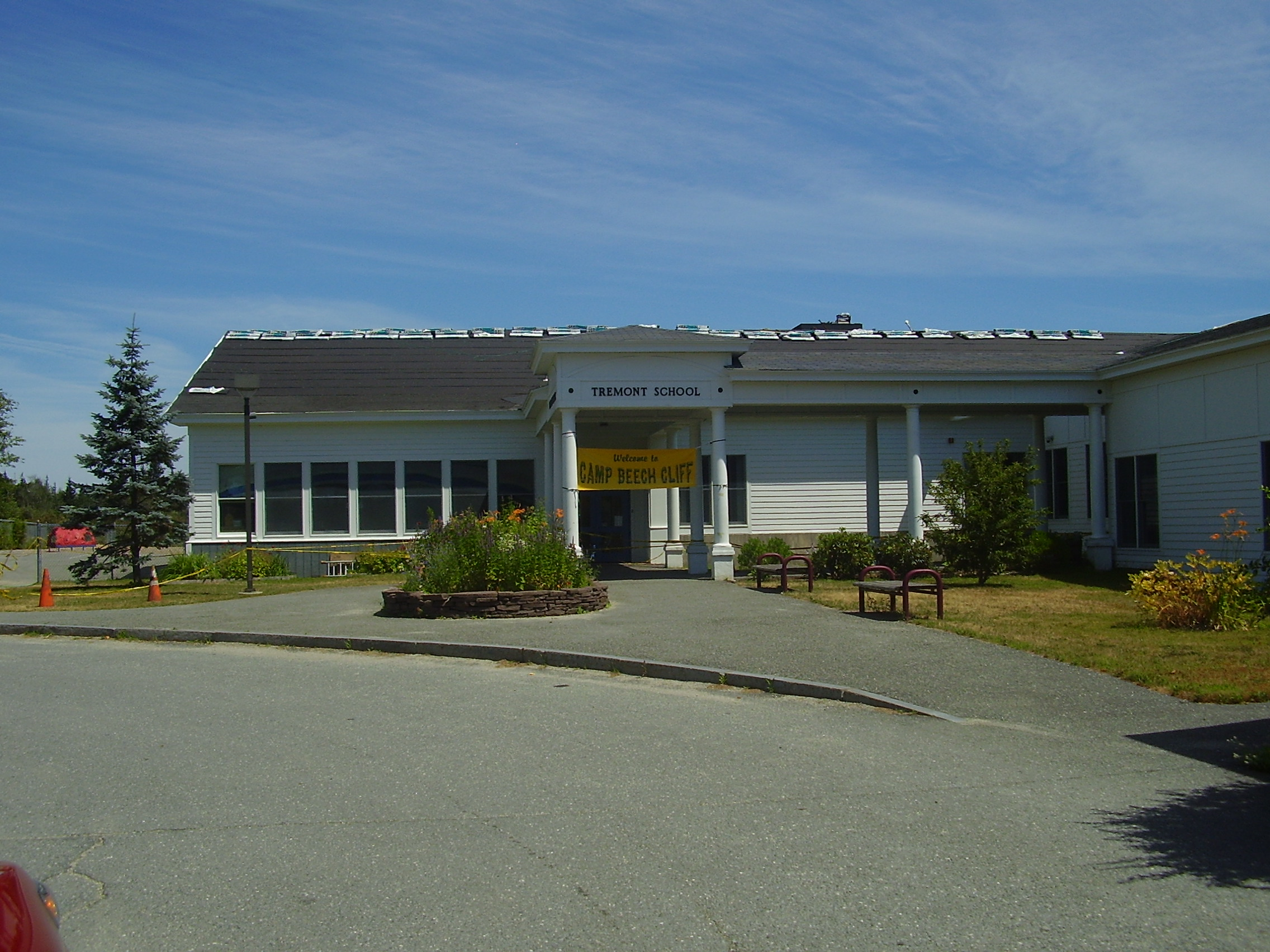 Tremont School